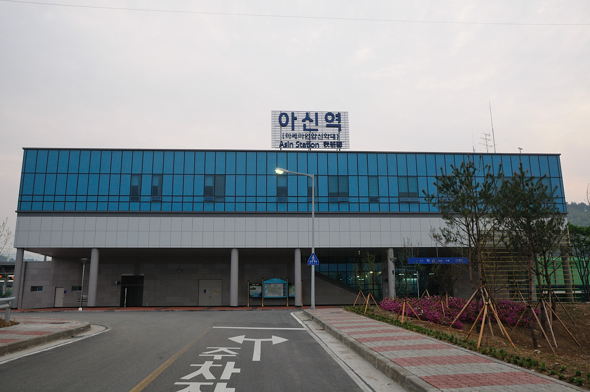 아신역